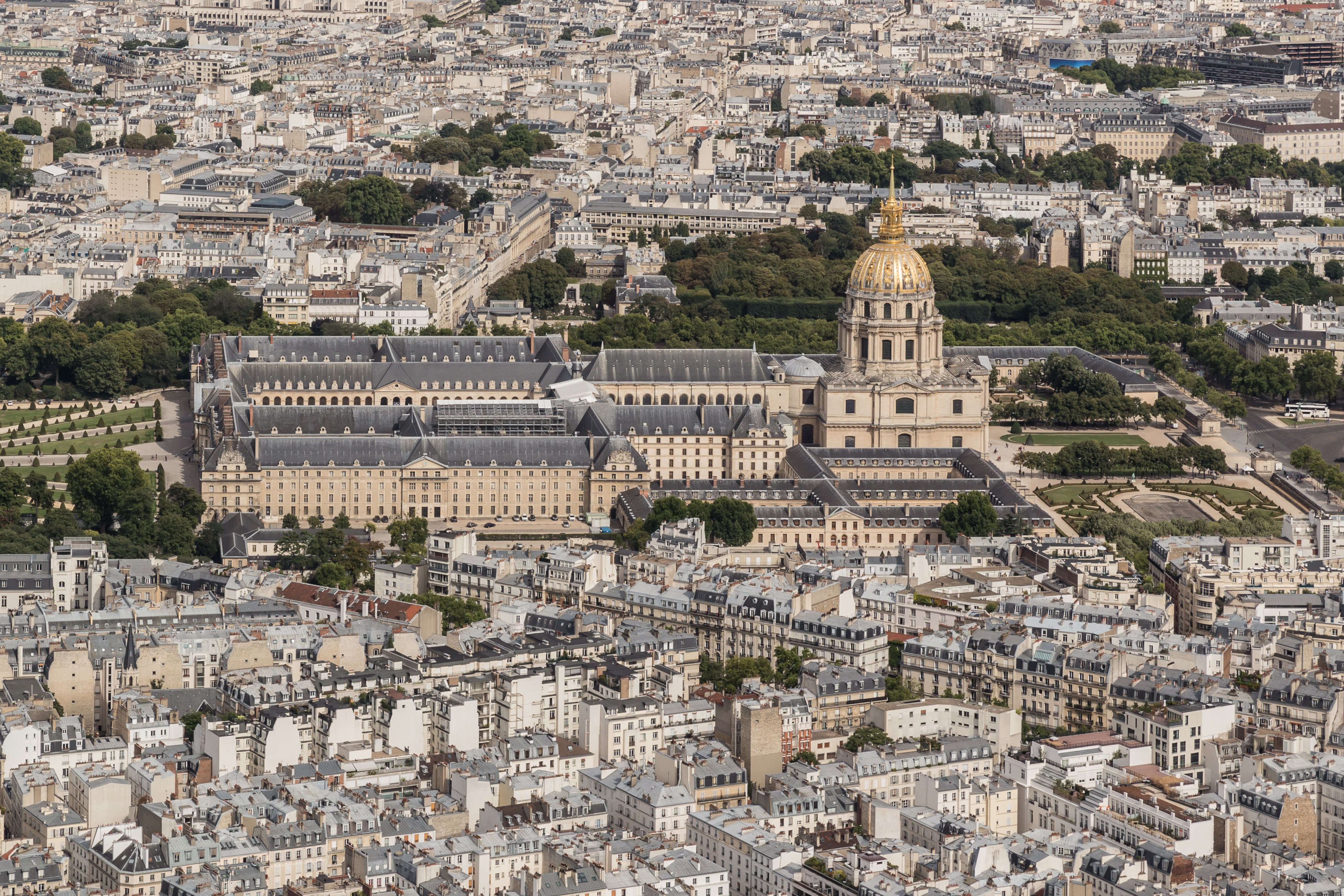 West face of Les Invalides from the Eiffel Tower in Paris, France.